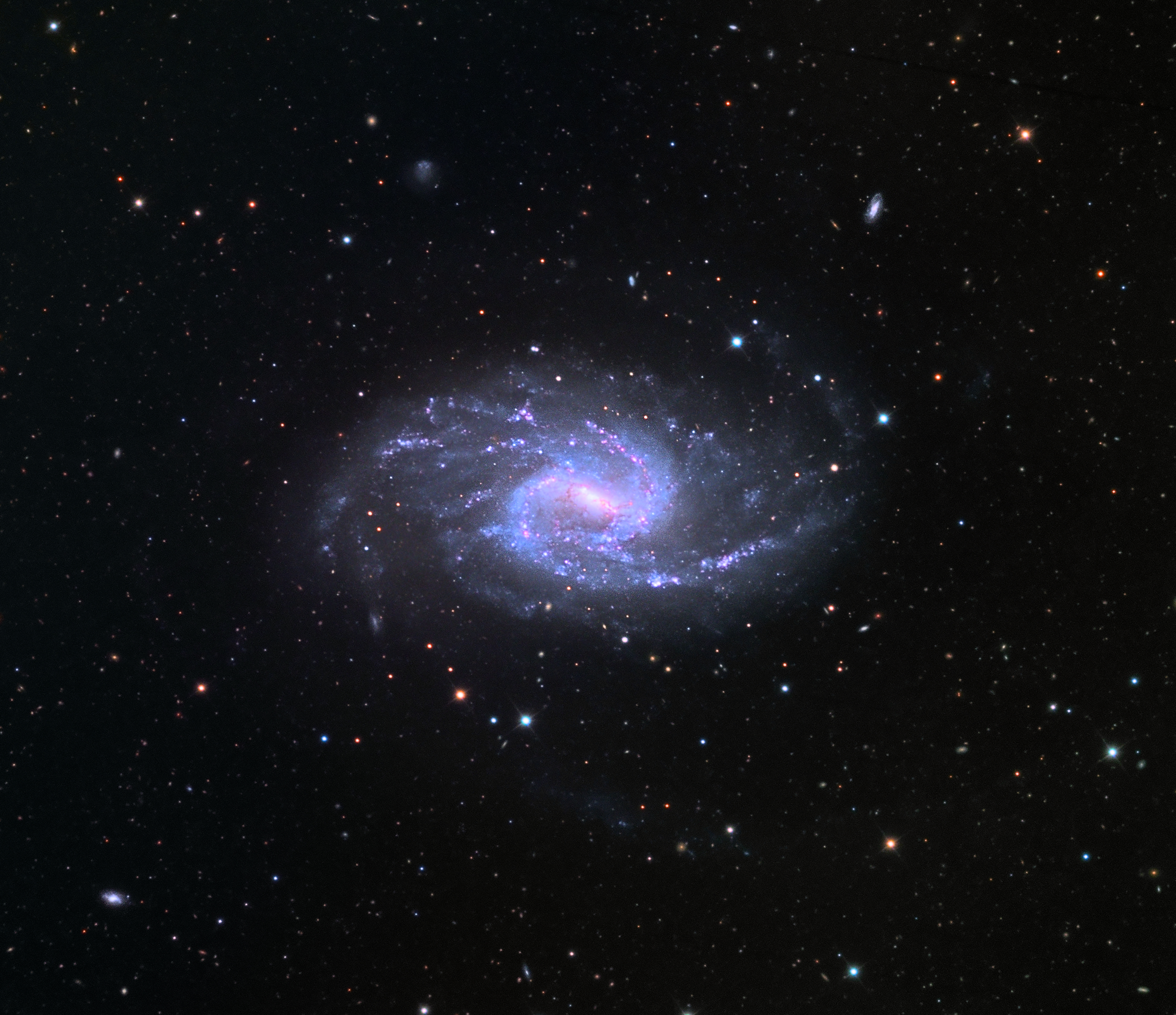 NGC 3359 in 32 inch telescope. Courtesy: Joseph D. Schulman